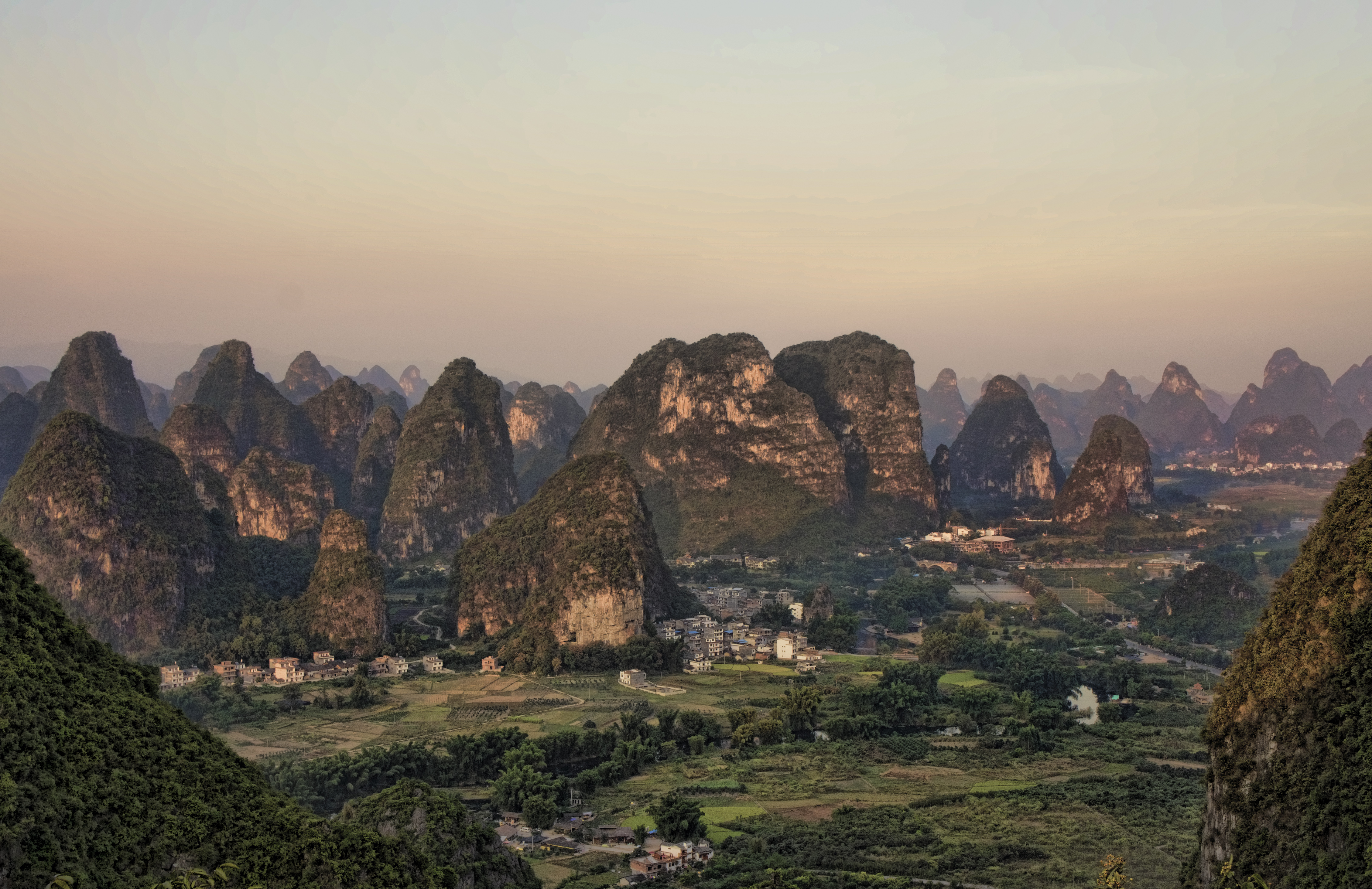 yangshuo county guilin moon hill view dusk china 2011